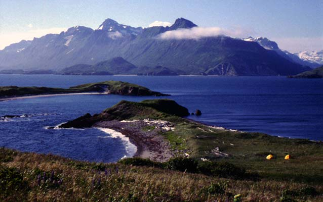 The south coast people living from the Aleutians to Prince William Sound, were skilled kayakers and sea hunters. Amalik Bay Archeological District is one of the landmarks associated with South Coast Sea Hunters.